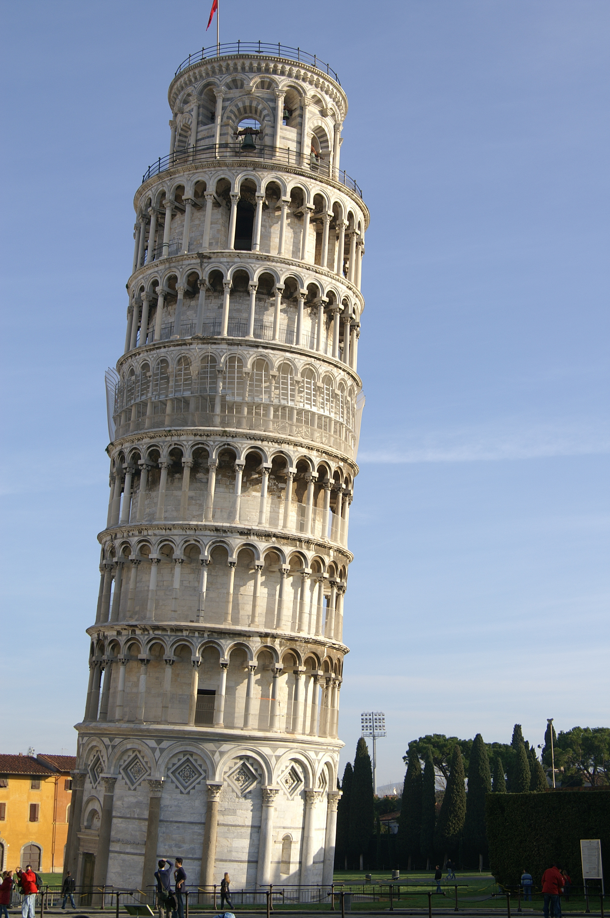 The most famous bell tower in the World.